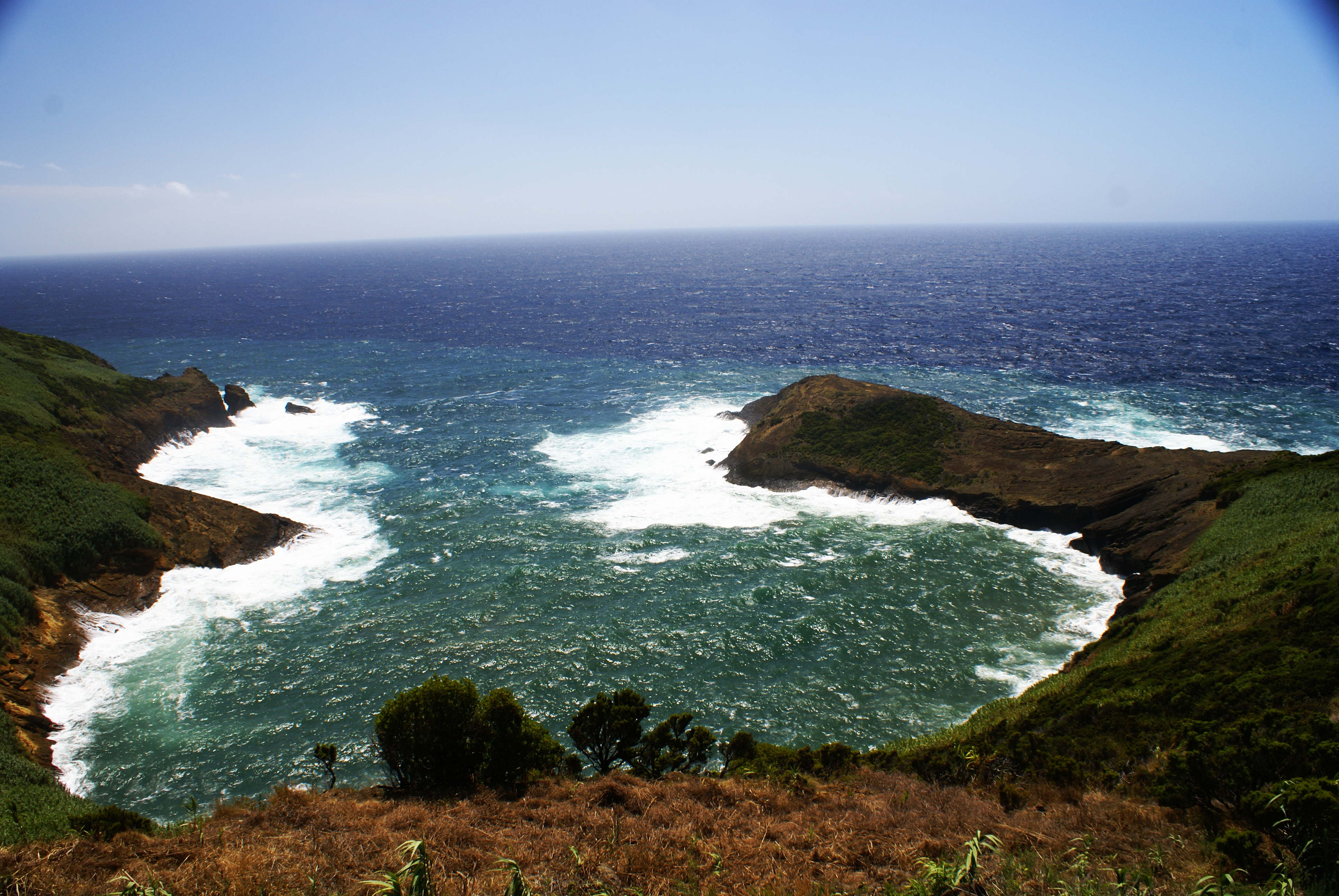 A stormy day at the volcanic crater of Monte da Guia (Caldeirinhas), Angústias, Horta, Faial (Azores), Portugal